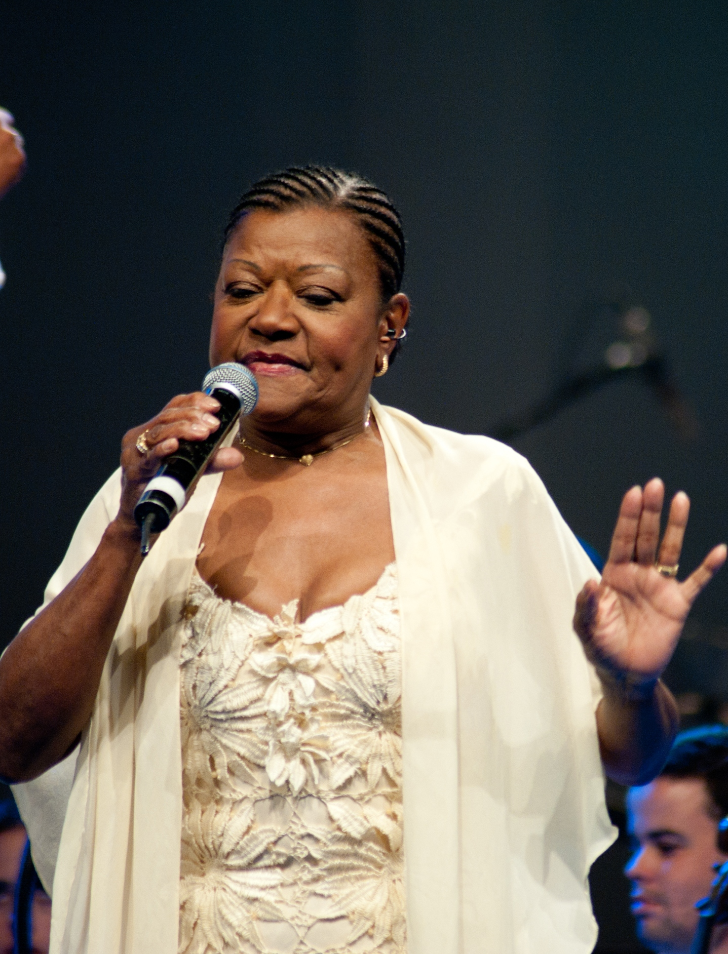 Brazilian singer Alaíde Costa during Fundação Cultural Palmares show (2010) © Pedro França/MinC